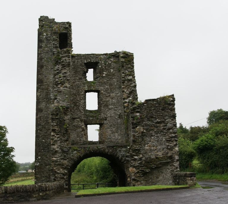 Mellifont Abbey (Ireland), gate building